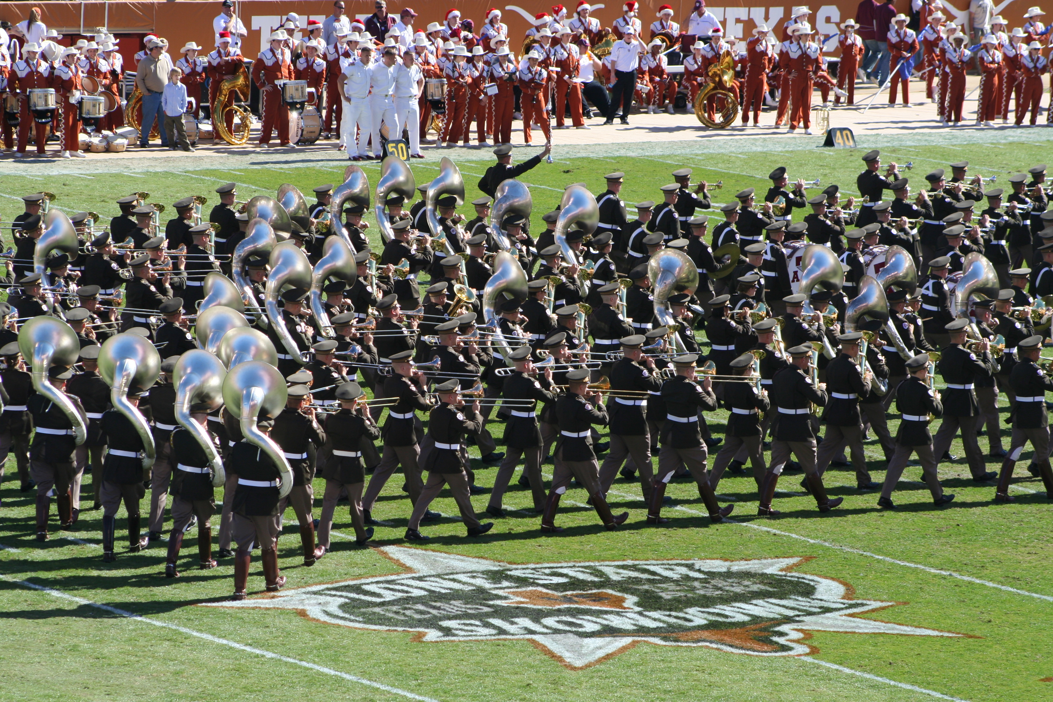 2006 Lone Star Showdown - College football game between University of Texas at Austin and Texas A&M University - Texas A&M marching band performing near the Lone Star Showdown logo with the Texas band in the background .